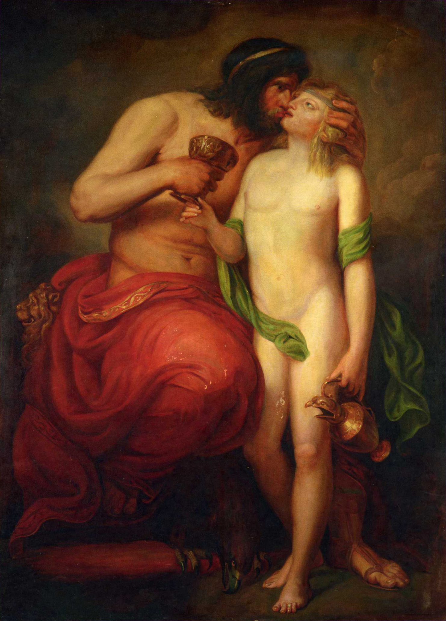 Jupiter Kissing Ganymed. Oil on canvas, 70" x 49", privately held, Berlin